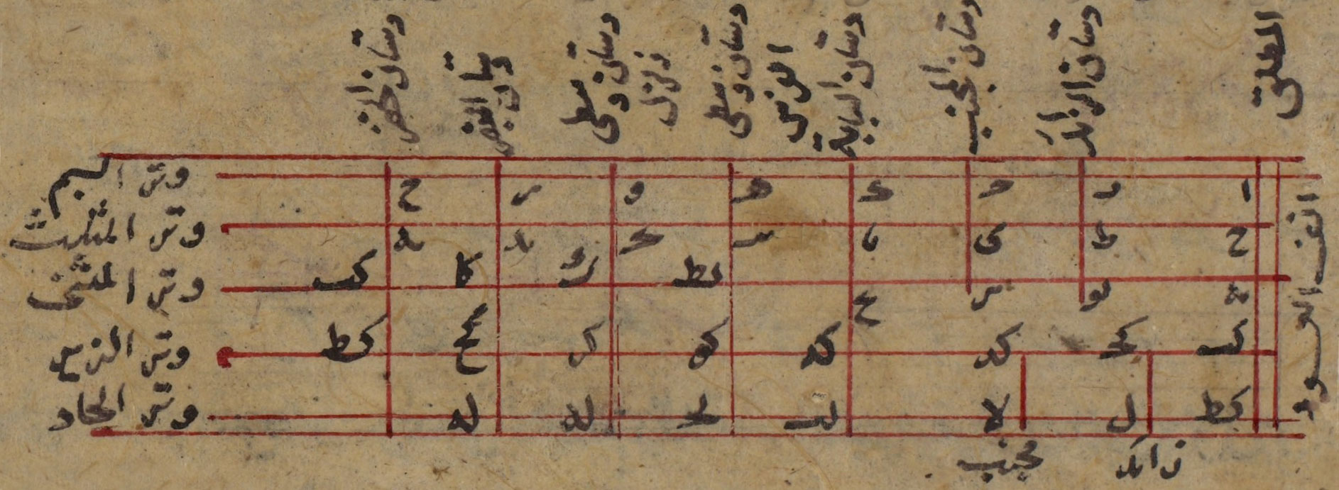 Alternative description of the Oud (lute) instrument, as appears in the treatise